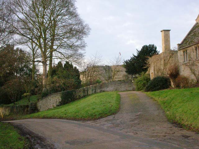 Photograph